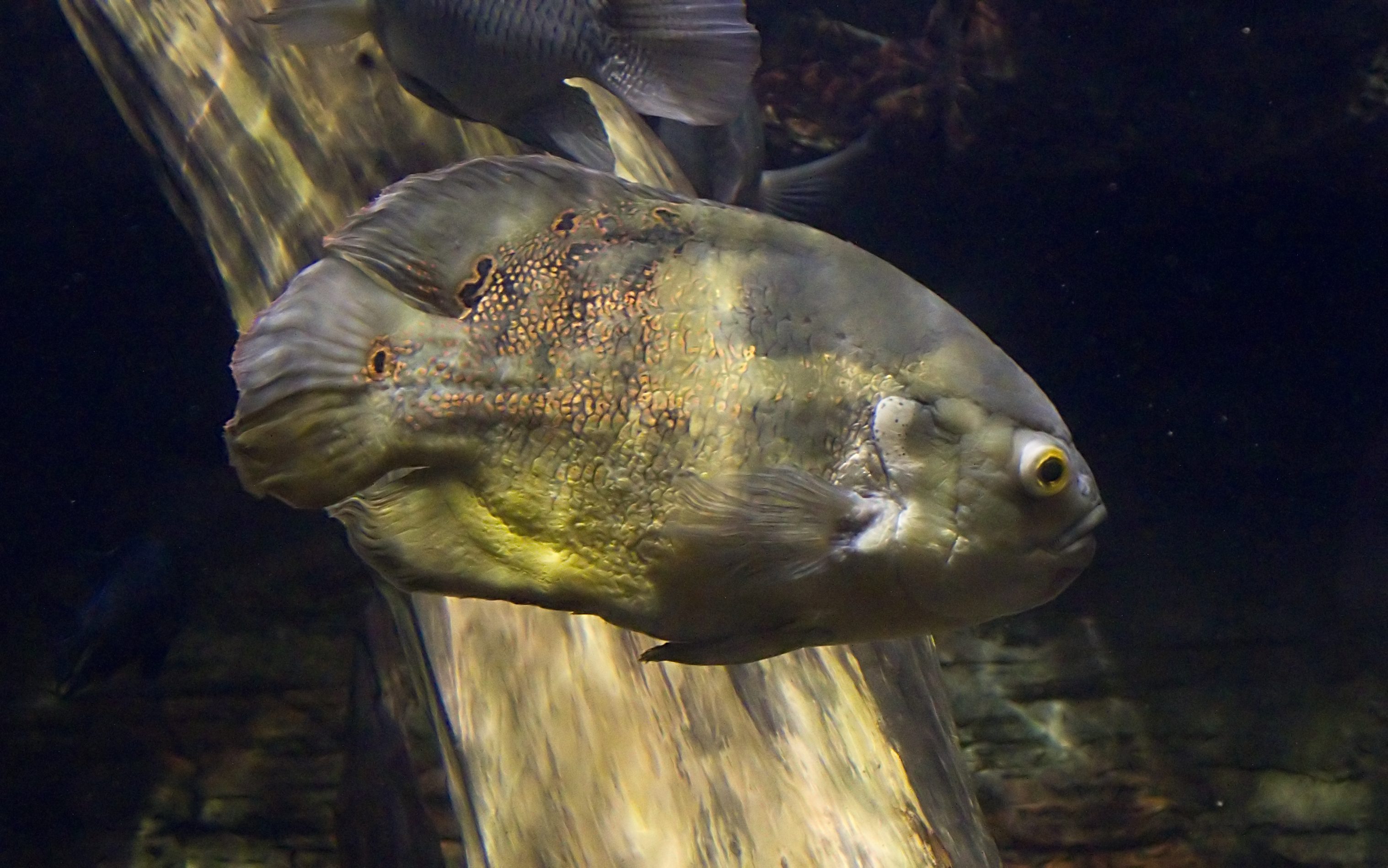 Astronotus ocellatus (Oscar) taken at the Cincinnati Zoo.